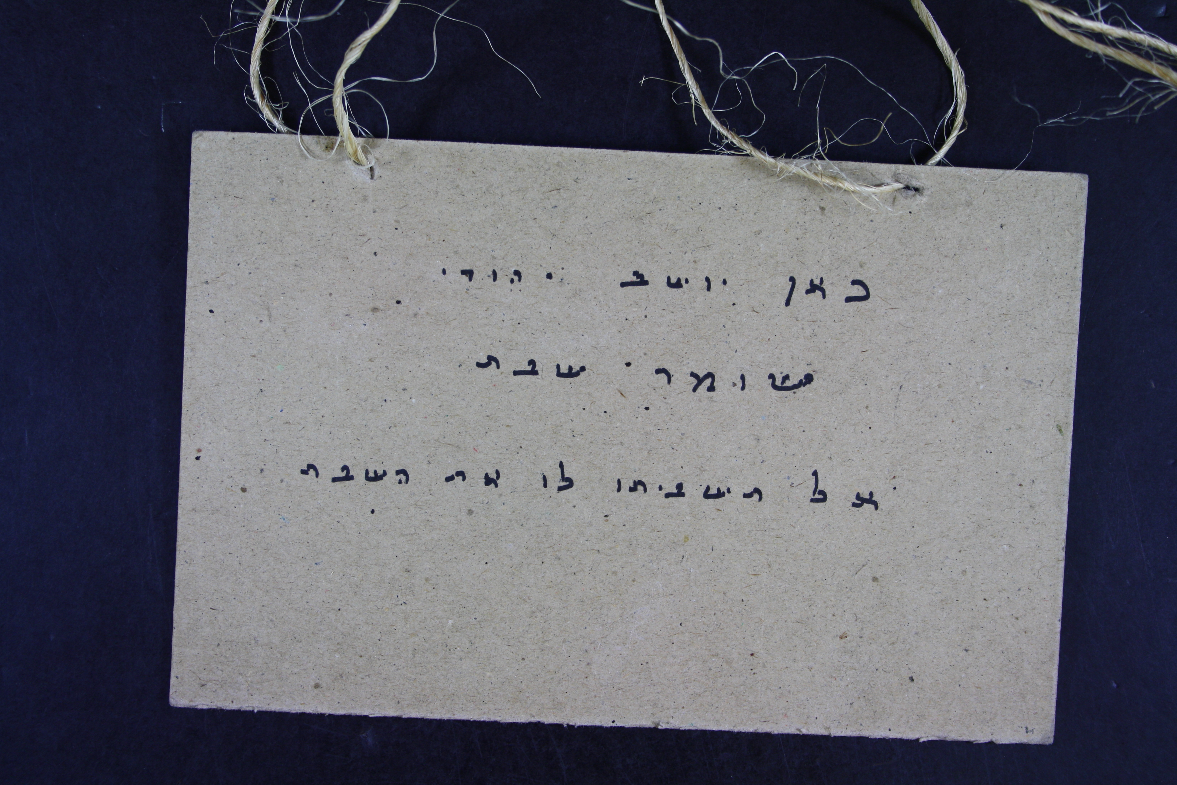 Photographs in the National Library of Israel